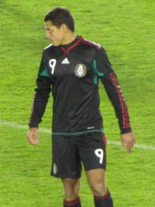 Javier Hernández Balcázar with the Mexico national football team.